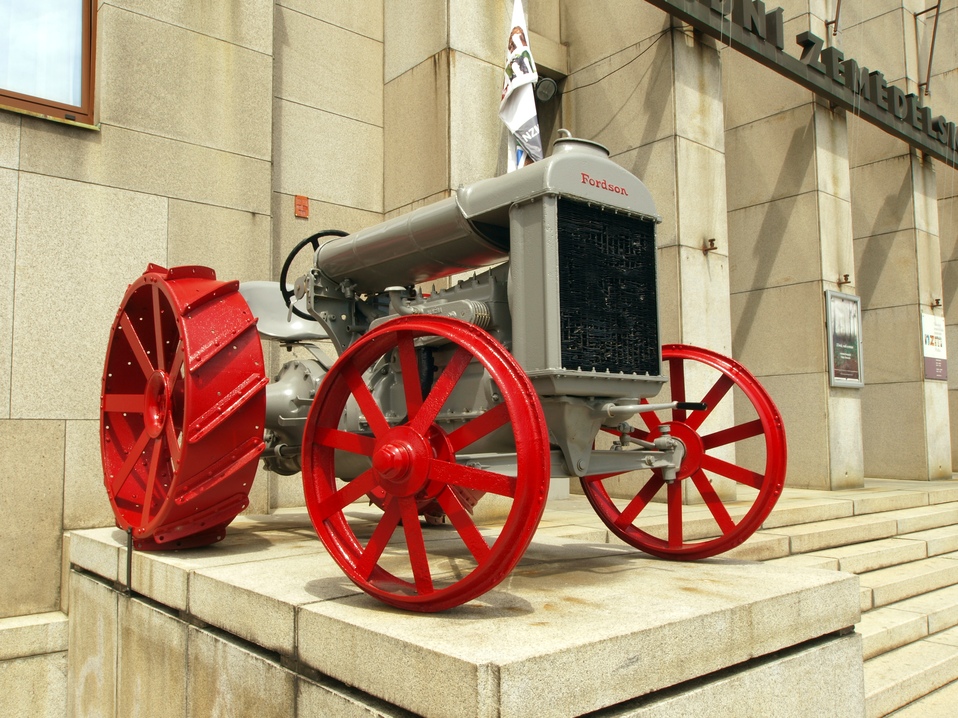 Fordson tracktor at the Agricultural museum, Prague.J